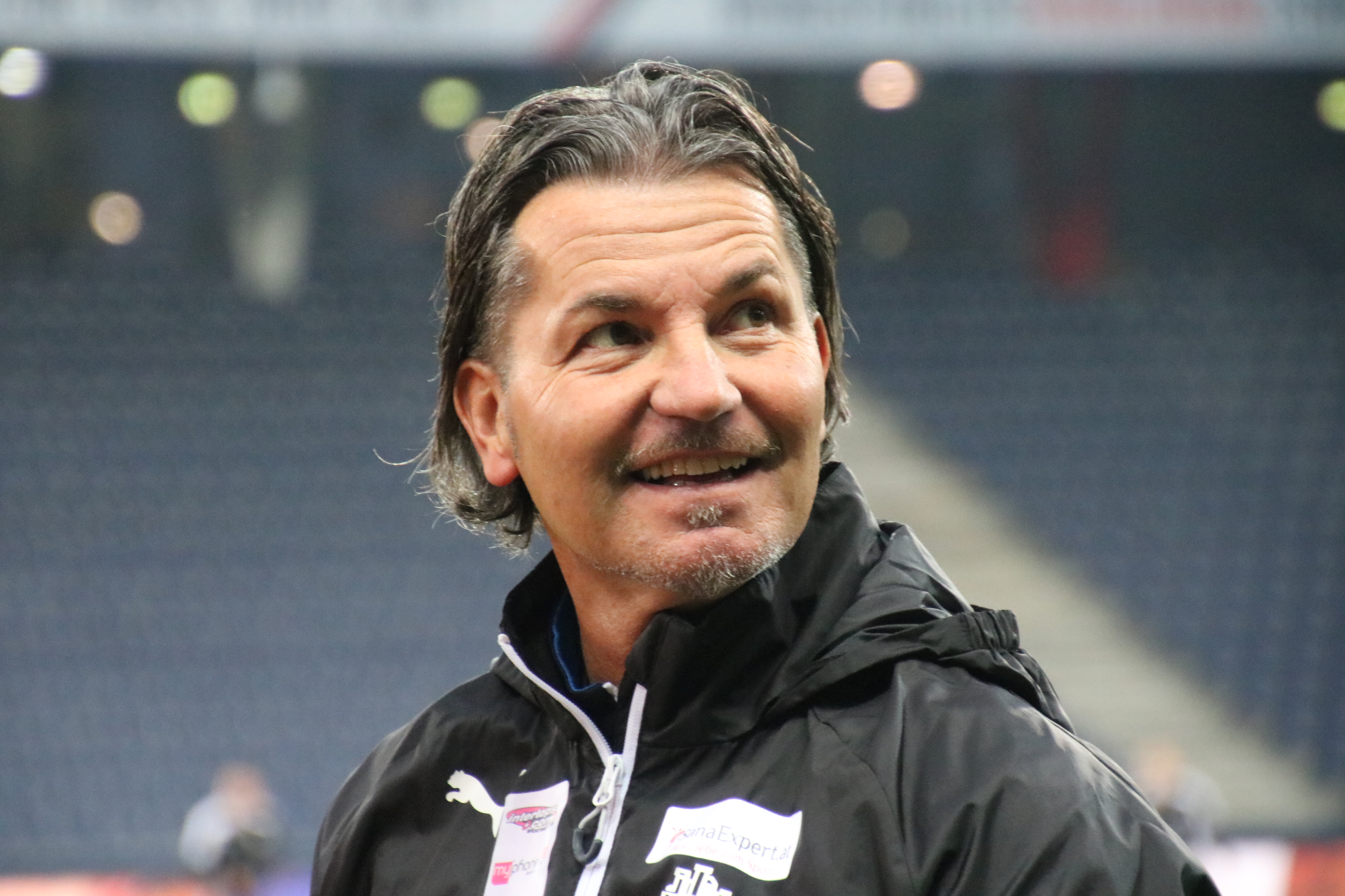 league match Austria 2nd league